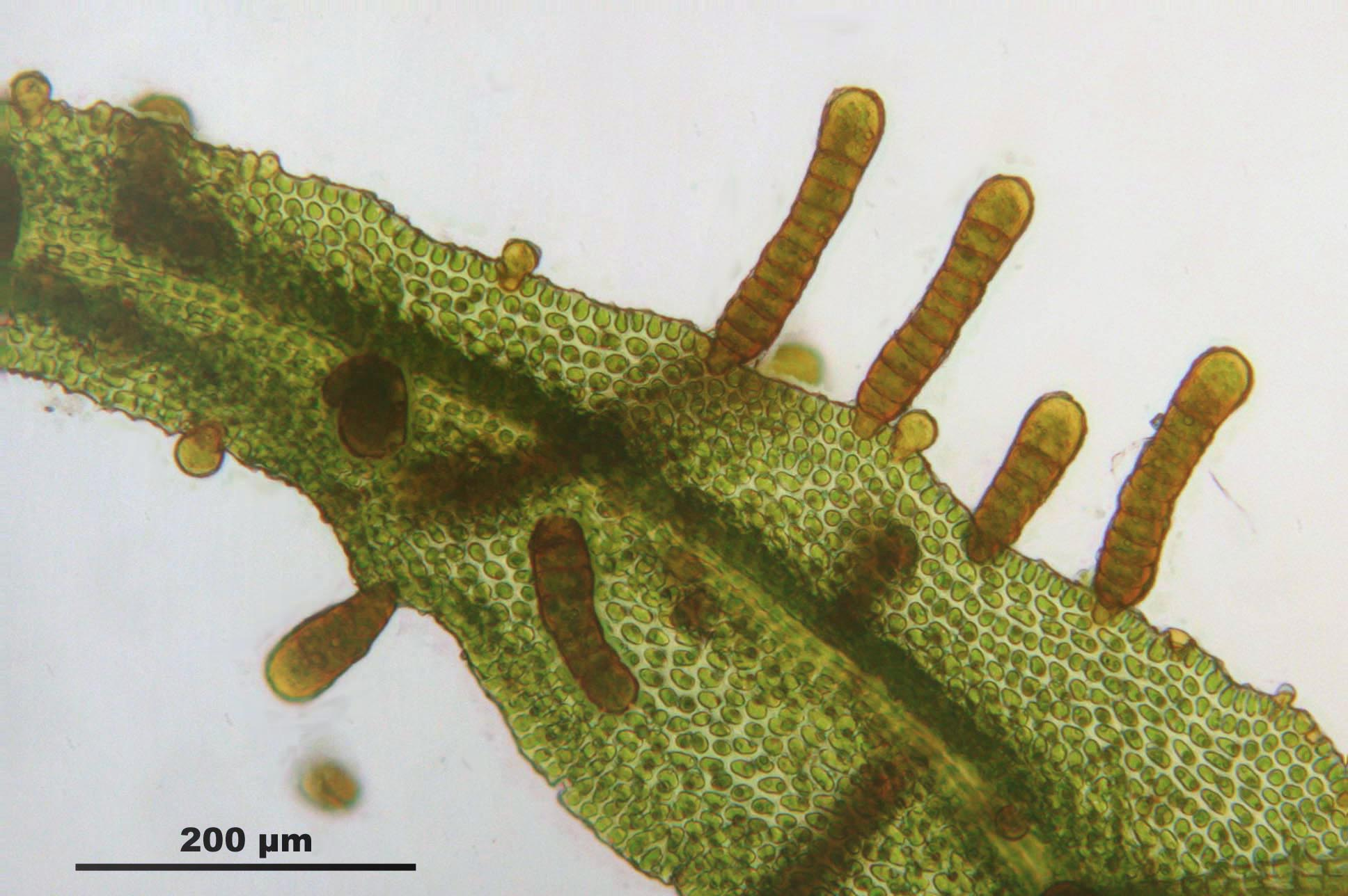 Orthotrichum lyellii